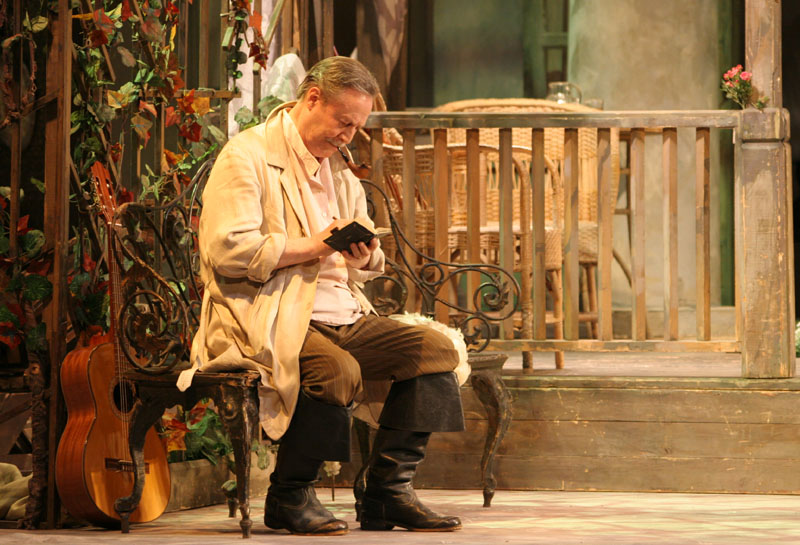 A scene from the play Maly Theatre «Seagull»